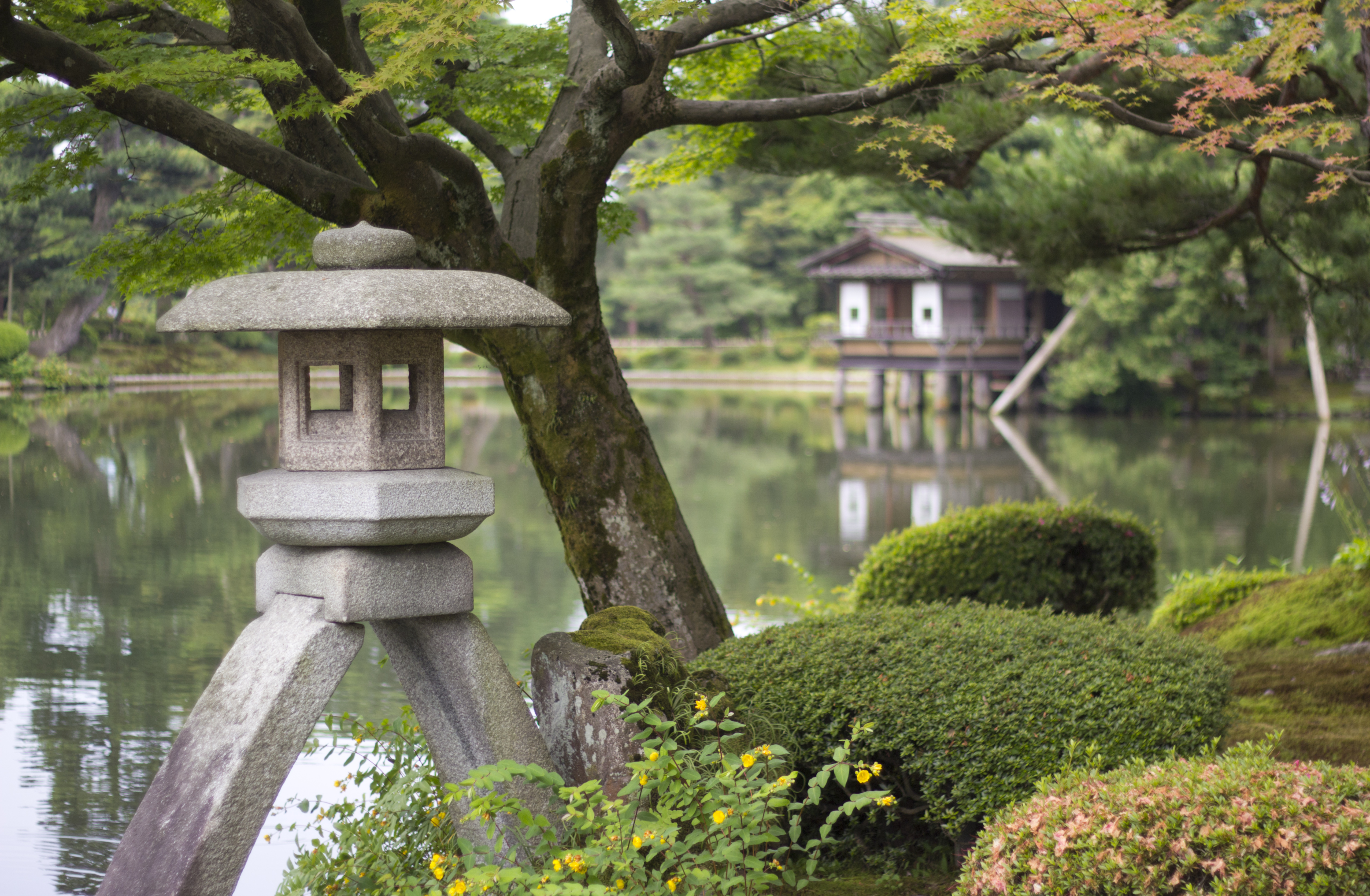 The famous stone lantern (toro) of Kenrokuen, Kanazawa.